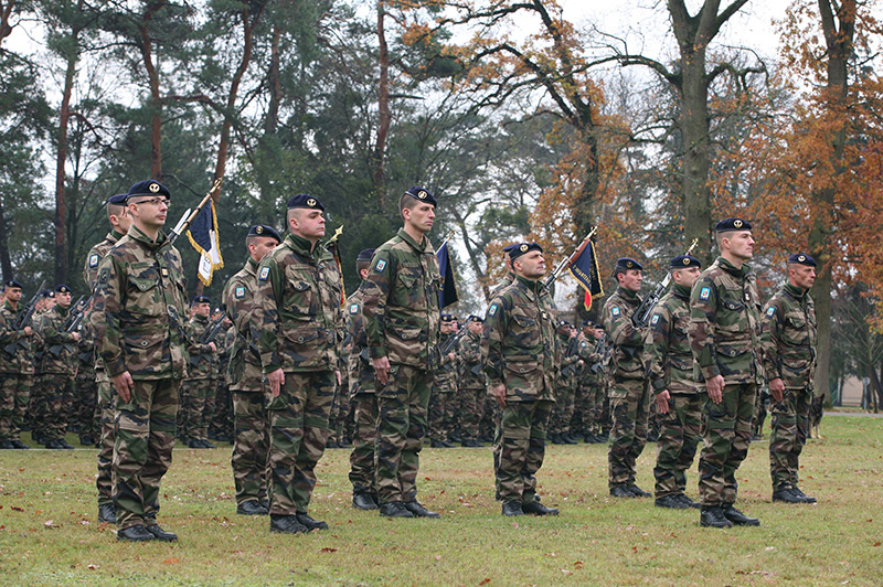 Ceremony of creation of battle-group Richelieu, 2nd Regiment of Marines, before his departure to Afghanistan. (France) Army.